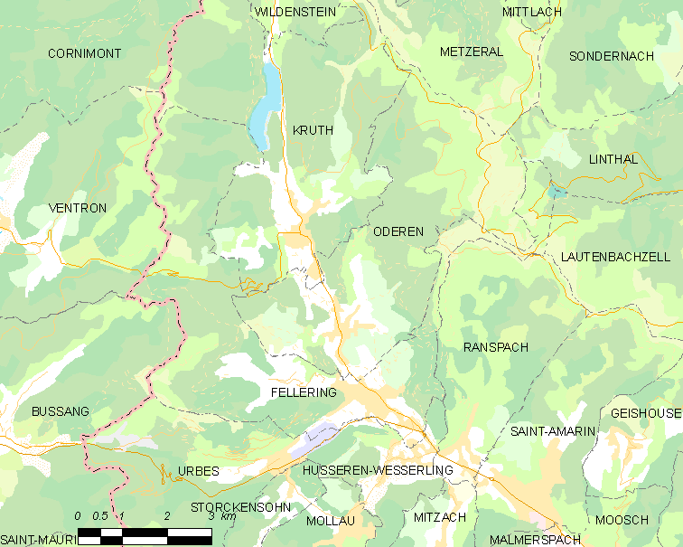 Map of French municipality